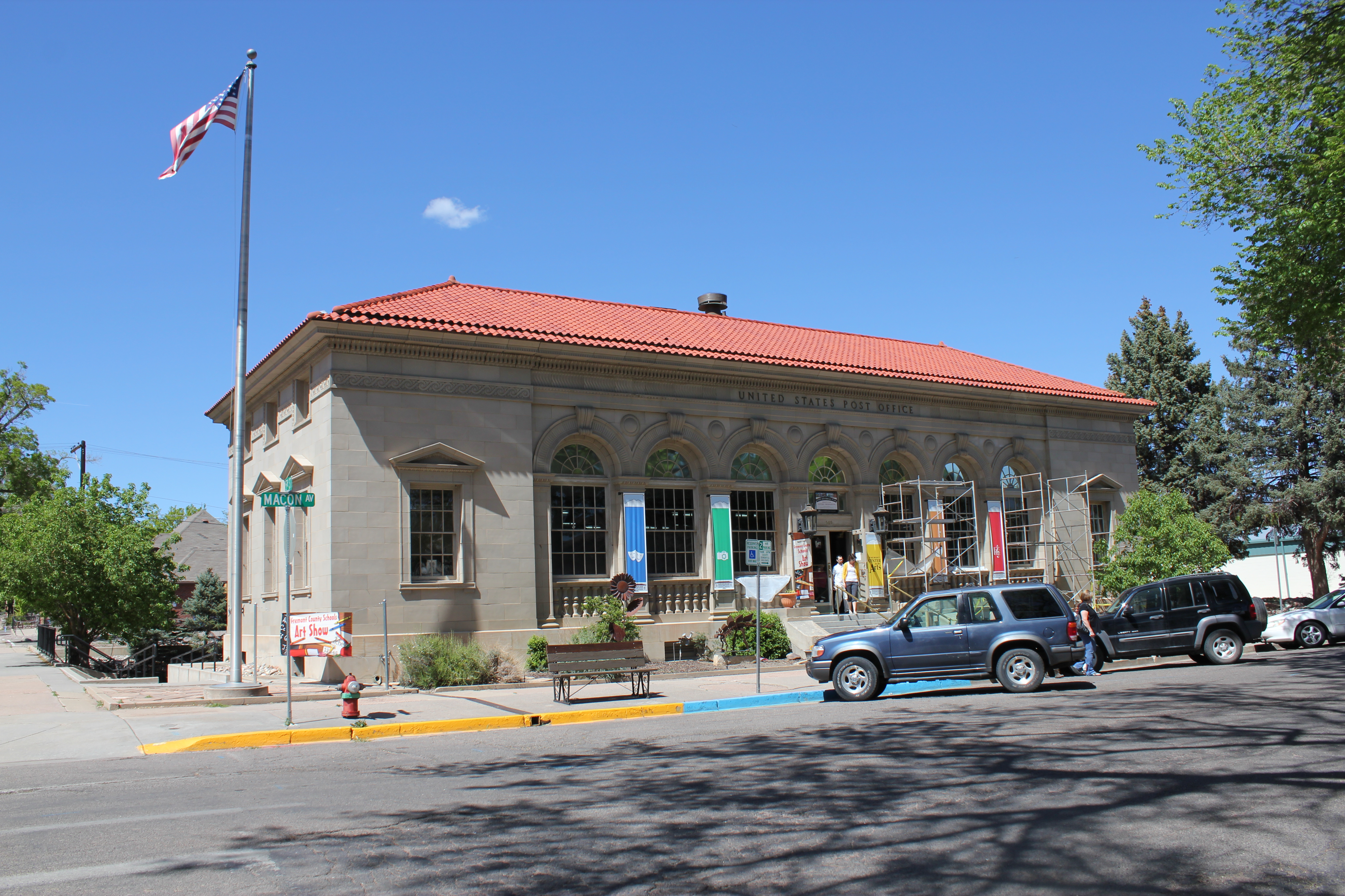 The US Post Office and Federal Building-Canon City Main, located at 5th Street and Macon Avenue in Cañon City, Colorado. The building is listed on the National Register of Historic Places.